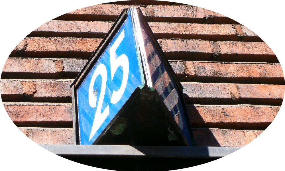 Kalevankatu 25, Helsinki, Finland, a detail